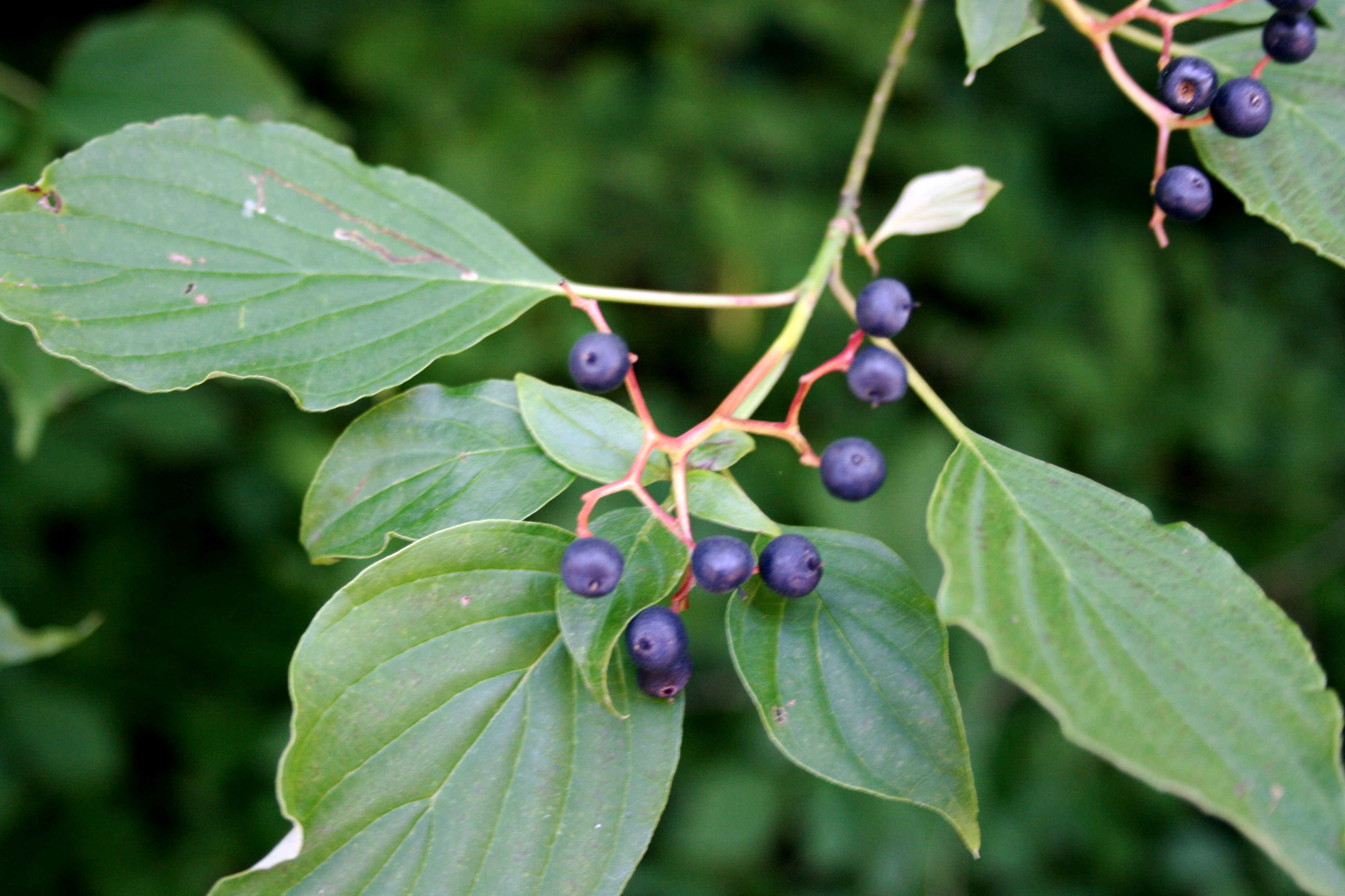 Pagoda Dogwood (Cornus alternifolia) on the beaches of Warren Dunes State Park in Sawyer, MI.